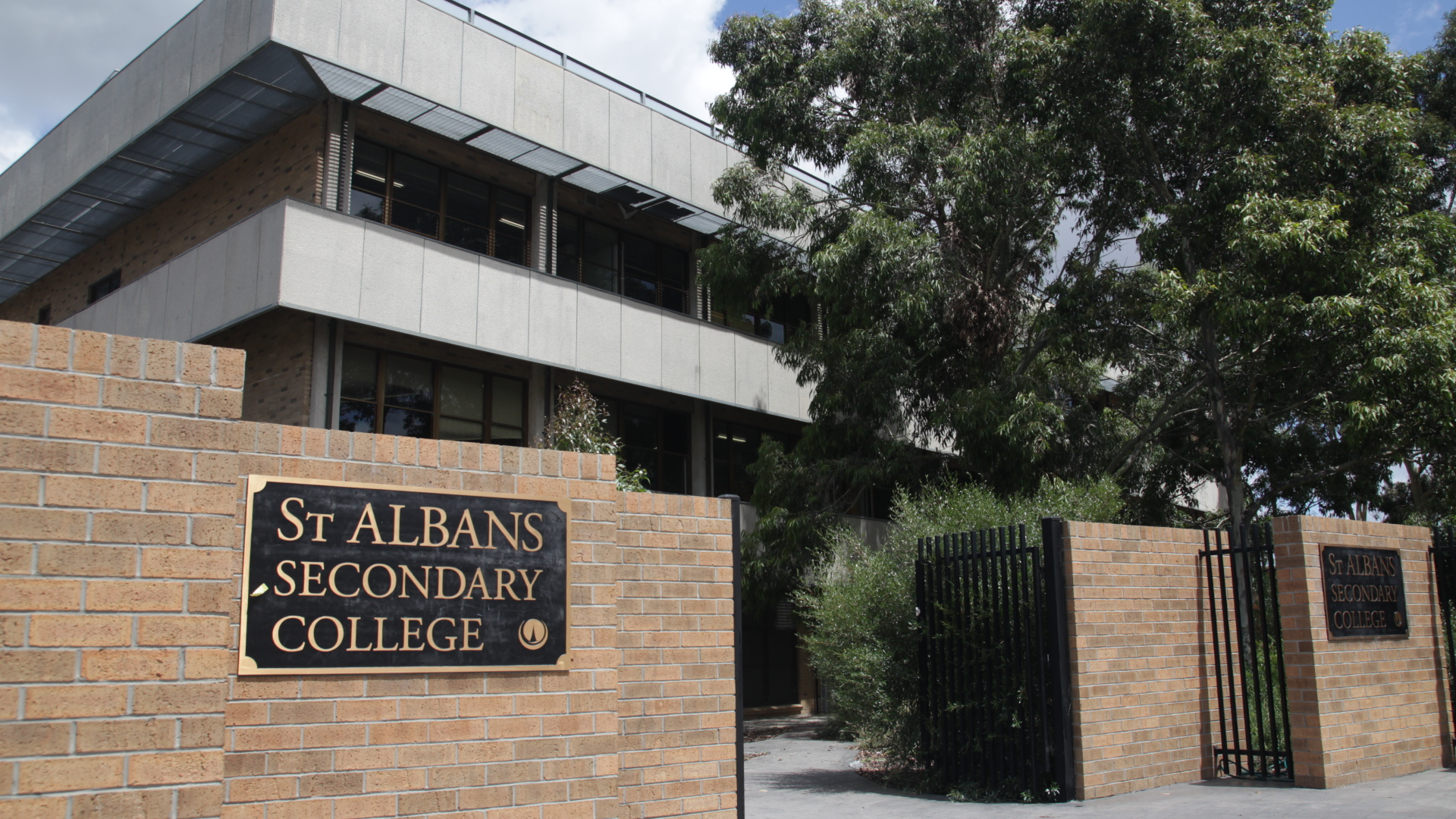 iPostcodes | About | Blog | Twitter | Facebook | Flickr | Unique Suburbs| Disclaimer St Albans Secondary College Located At: 238 Main Rd East St Albans VIC 3021 About This Photo: St Albans Secondary College is located at 289 Main Road East. The College is proud of its history as the original secondary school in the area, and of its continuing role as an educational focal point within the community. Source: St Albans Secondary College Retrieved 10 Jan 2011 Photo Taken: During iPostcodes's Unique Suburbs filming of St Albans, Victoria, Australia About iPostcodes iPostcodes is an Australian real estate portal offering free listings to all property owners and real estate agents and a whole lot more. Unique Suburbs Check out Unique Suburbs where we did a full Suburb Profile of "St Albans, Victoria Australia" on video.